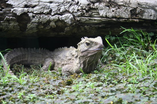 Tuatara 2006 Southland Museum and Art Gallery